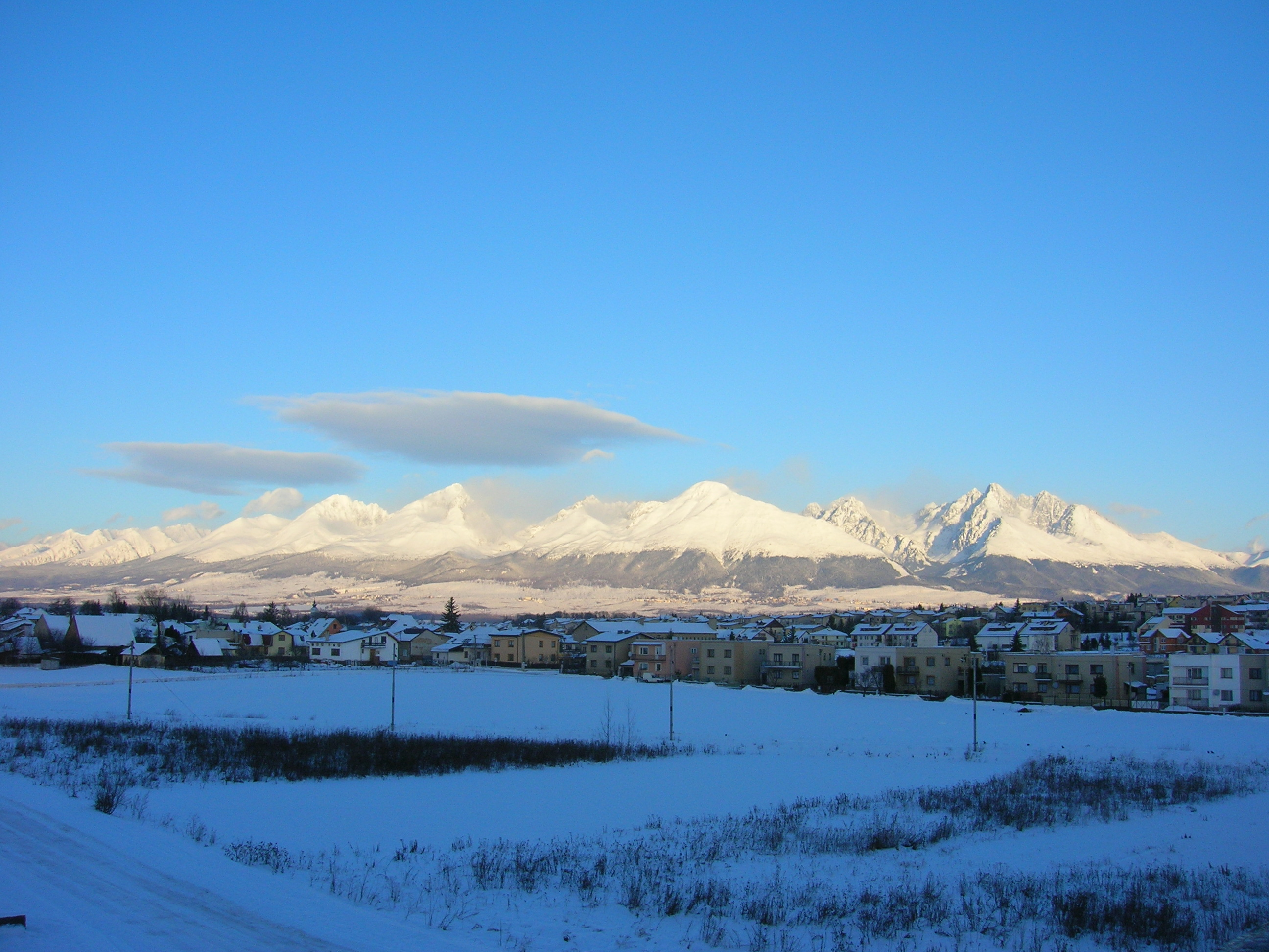 High Tatras seen from the train station Poprad-Tatry in Slovakia